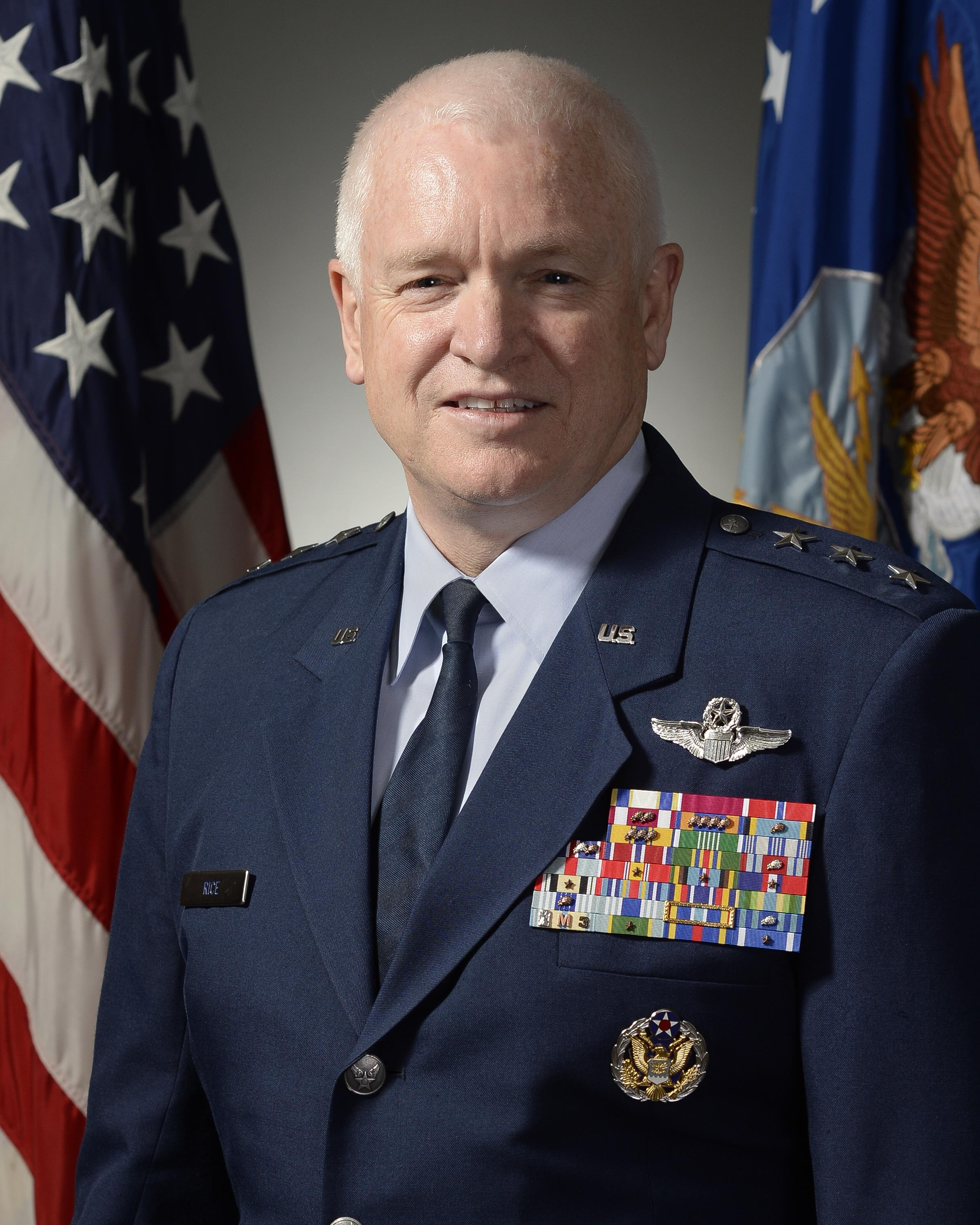 New photo of Lt Gen Rice